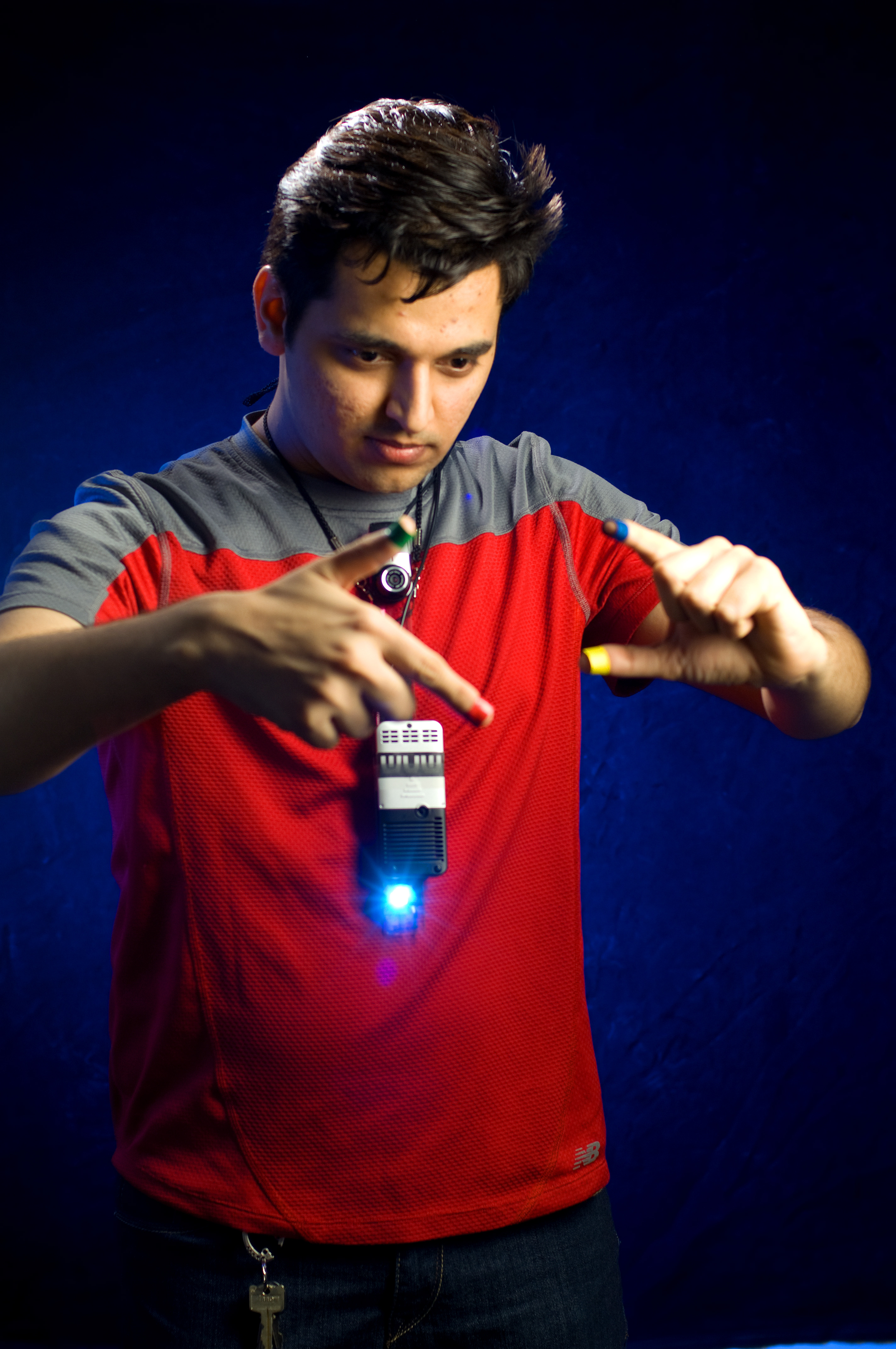 pranav mistry portrait with his SixthSense device